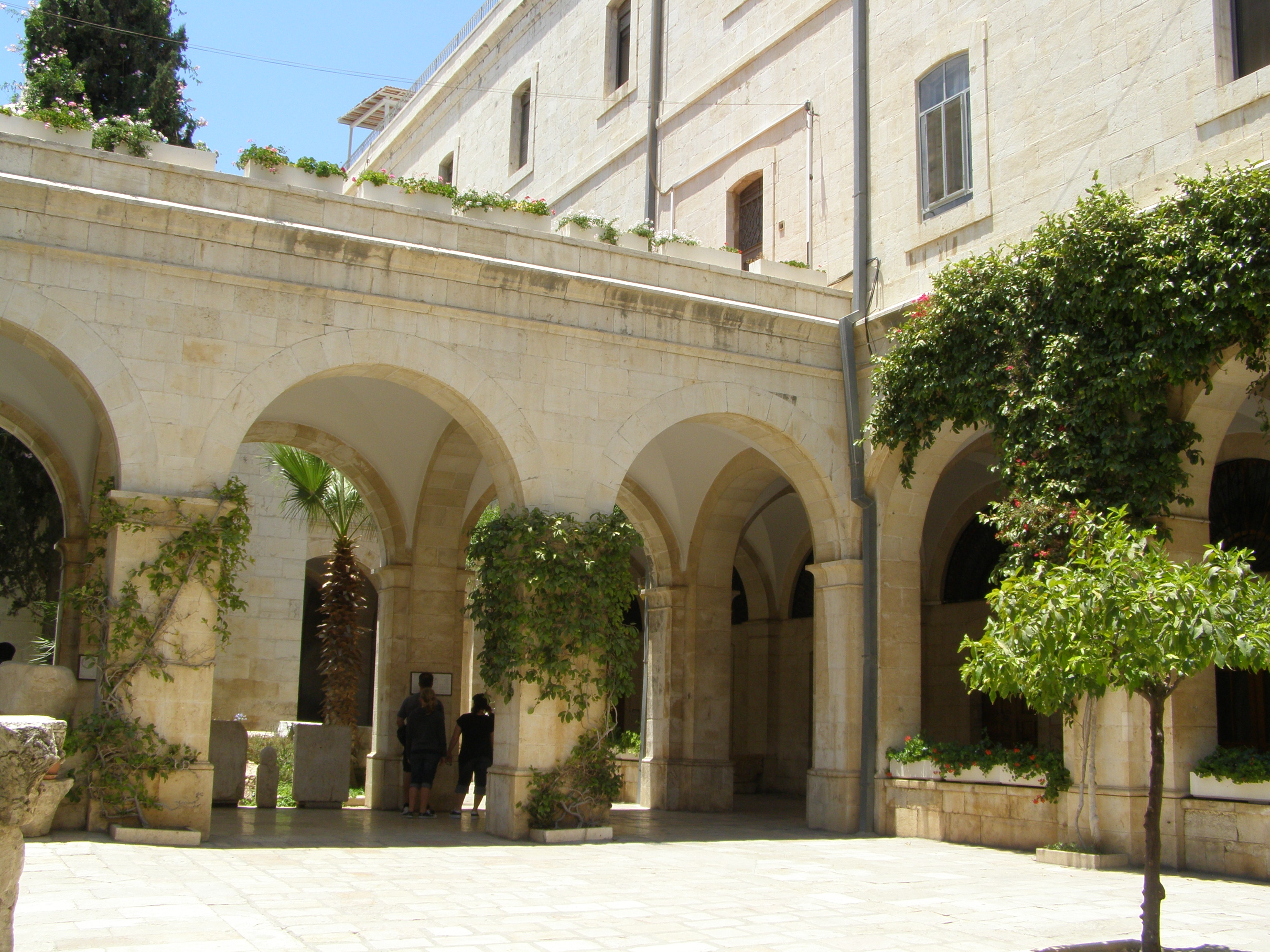 Jerusalem, Old City, Monastery of the Flagellation